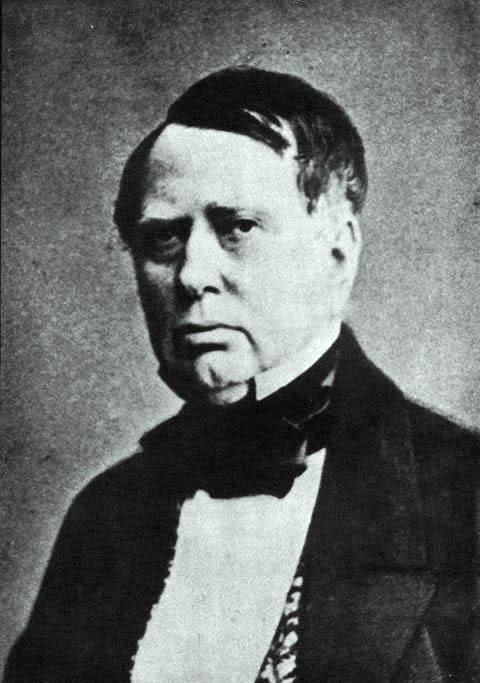 Photograph of Mariano Arista (1802-1855), a Mexican general who served as President of Mexico from 1851 to 1853.